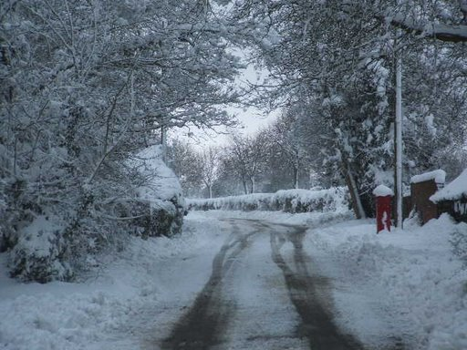 View of Wormshill village during heavy snowfall